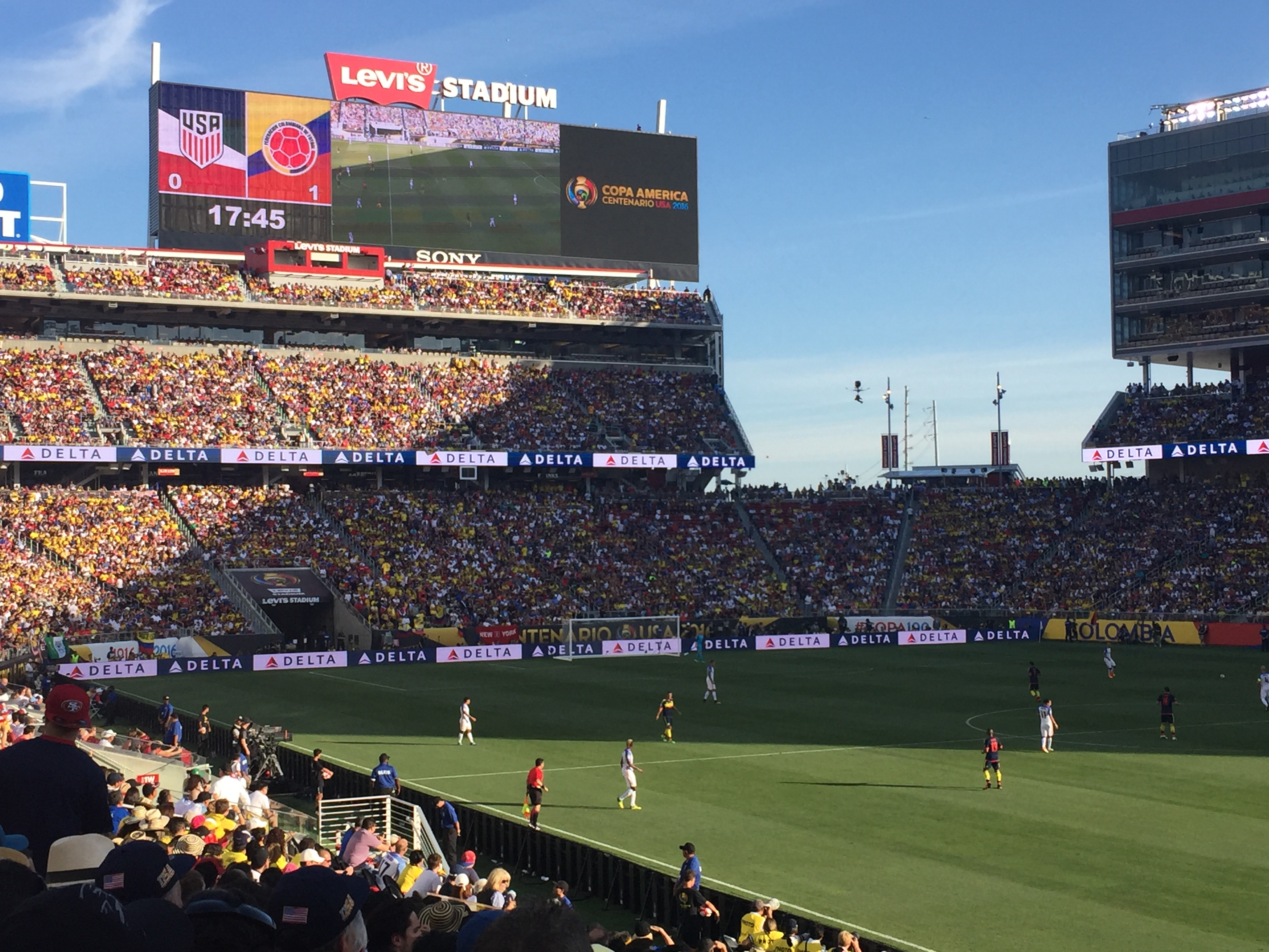 USA vs Colombia on June 3, 2016